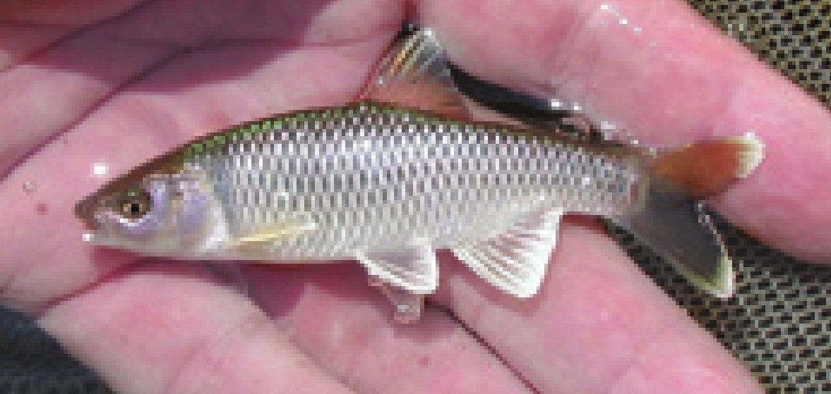 Cyprinella analostana labelled Notropis analostanus